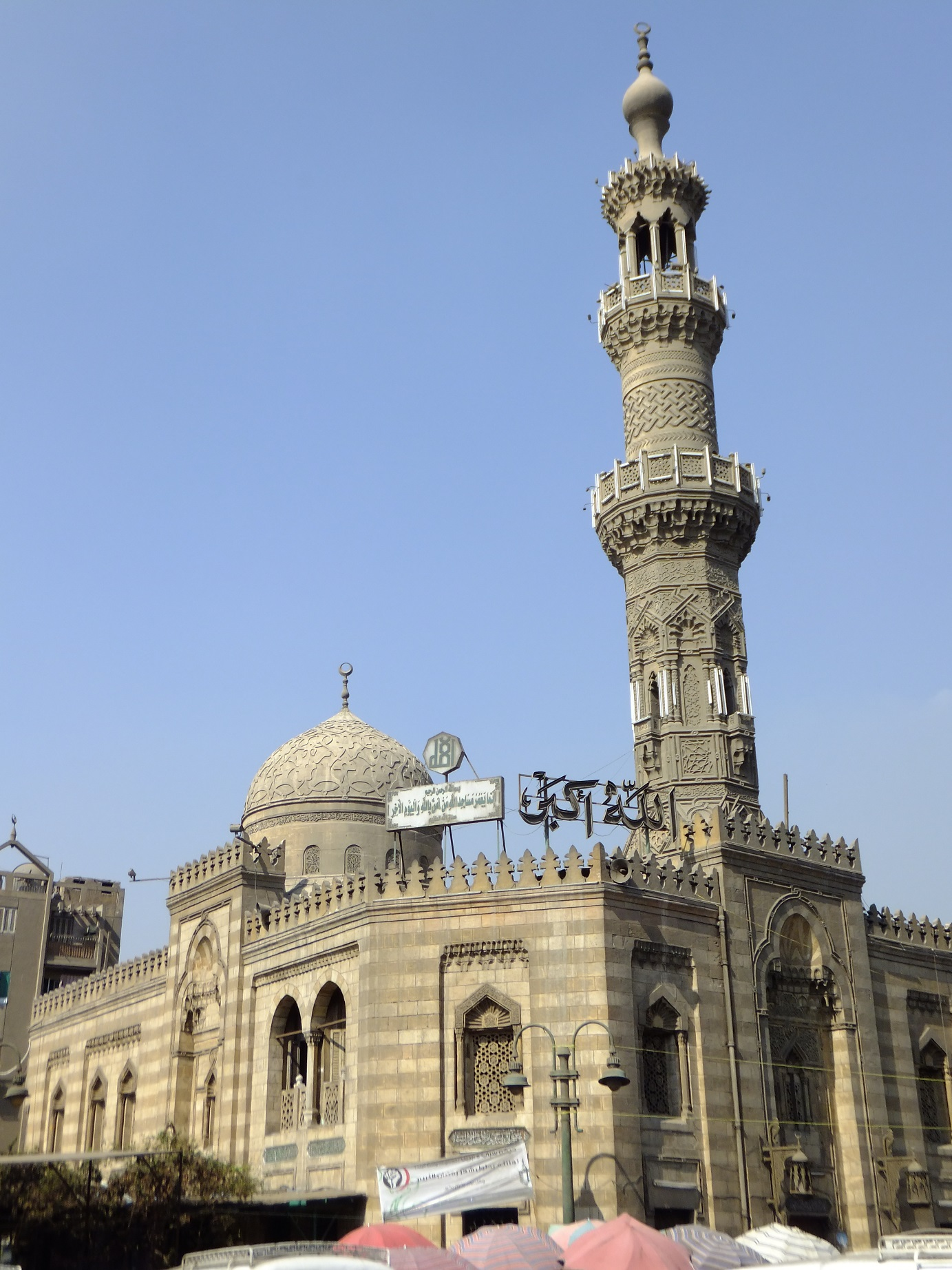 Sayyida Aisha Mosque (rebuilt in 1895).